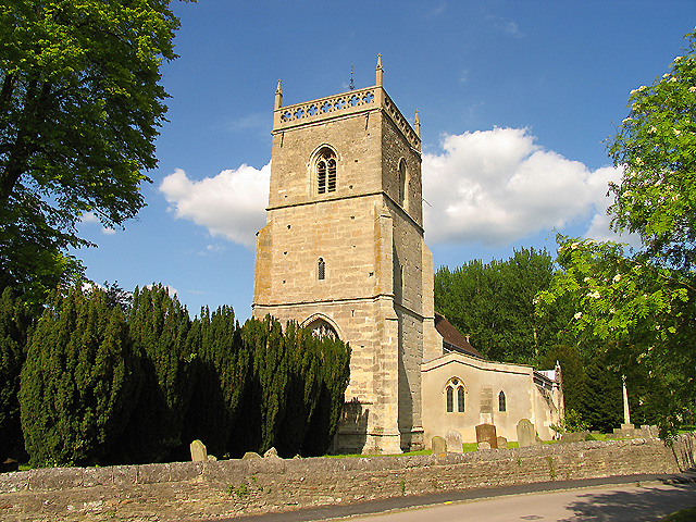 Church of England parish church of St Augustine of Canterbury, East Hendred, Oxfordshire (formerly Berkshire): view from the from south-west, showing the 15th century west tower